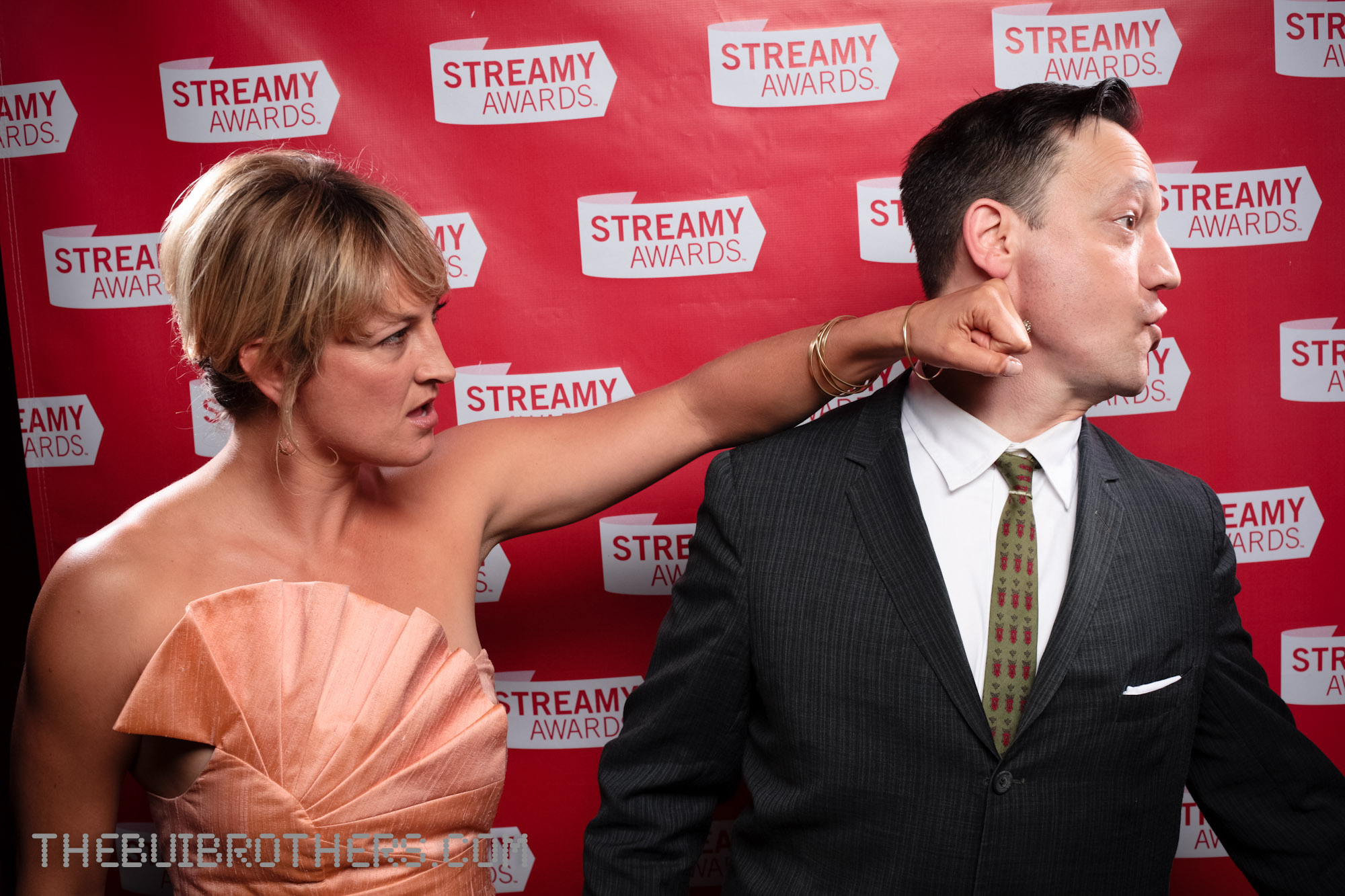 Thanks for viewing the official Streamy Awards photos! The exclusive photos of the winners and presenters are here. You don't want to miss those! We could not have done this without our awesome team of associate photographers: Bonny Pierzina Gabriel Ryan Laura Kearse Joe Philipson Kevin Calumpit Luis Miguel Munoz-Najar Actually, without our production team we could not have done this either: Josh Allard Megan Chrisofferson Mark Bealo Scott Kearse Thanks so much everyone for your hard work, and thanks so much Streamy Awards for using us again for the official photography! Please feel free to use these photos under a Creative Commons Attribution license (which means you may use the photos as long as you attribute the photos to and provide a link back to ) You can learn more about the Sreamy Awards by visiting Also, you can learn more about these photos by visiting our website with our favorite Streamy Awards photos.